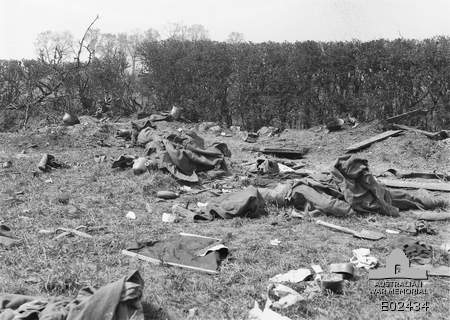 A machine gun position destroyed during the Entente counterattack in the second battle of Villers-Bretonneux